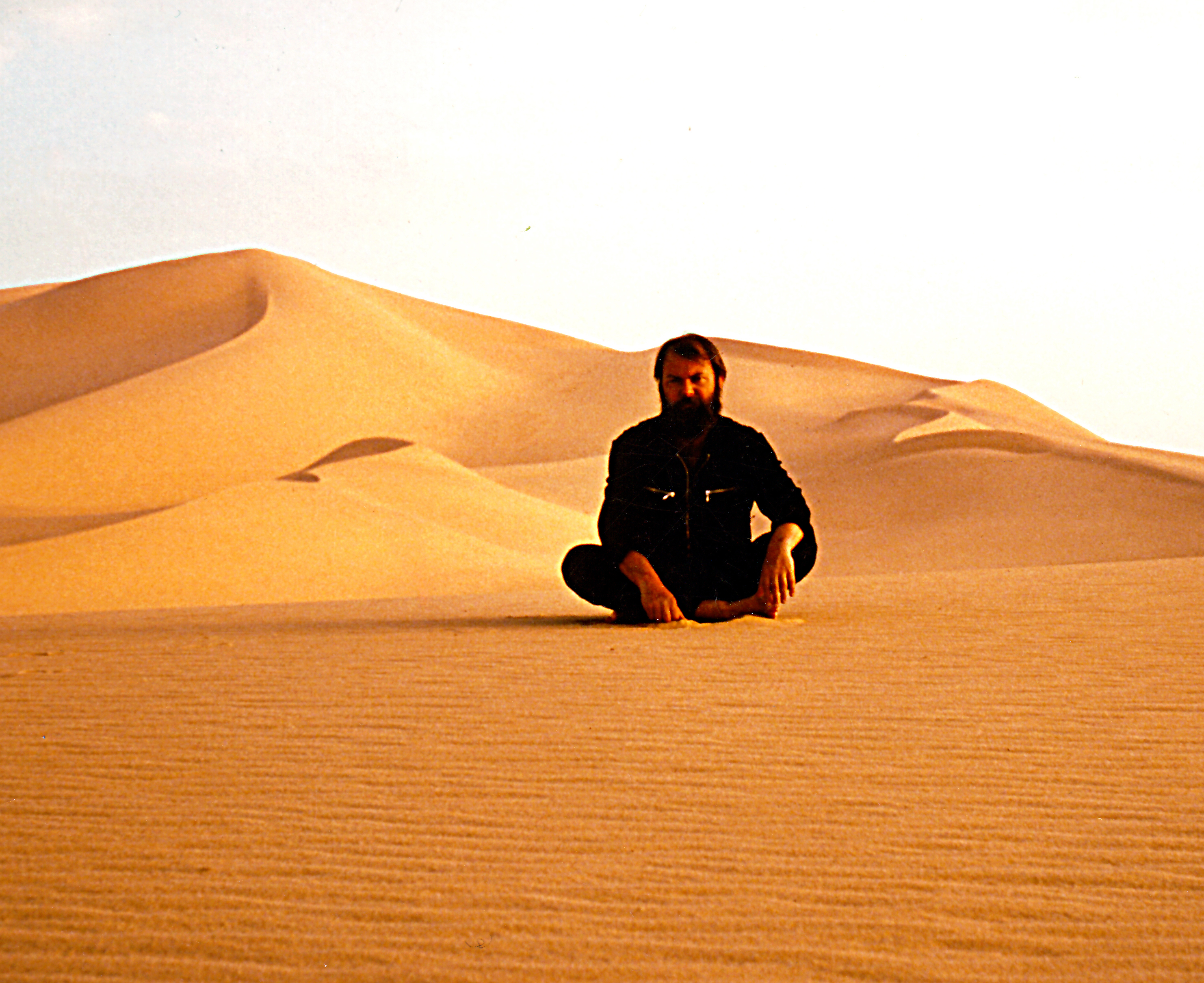 Jox in Tenere